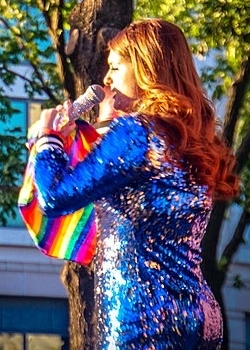 Meghan Trainor performs at Capital Pride, Washington, DC USA